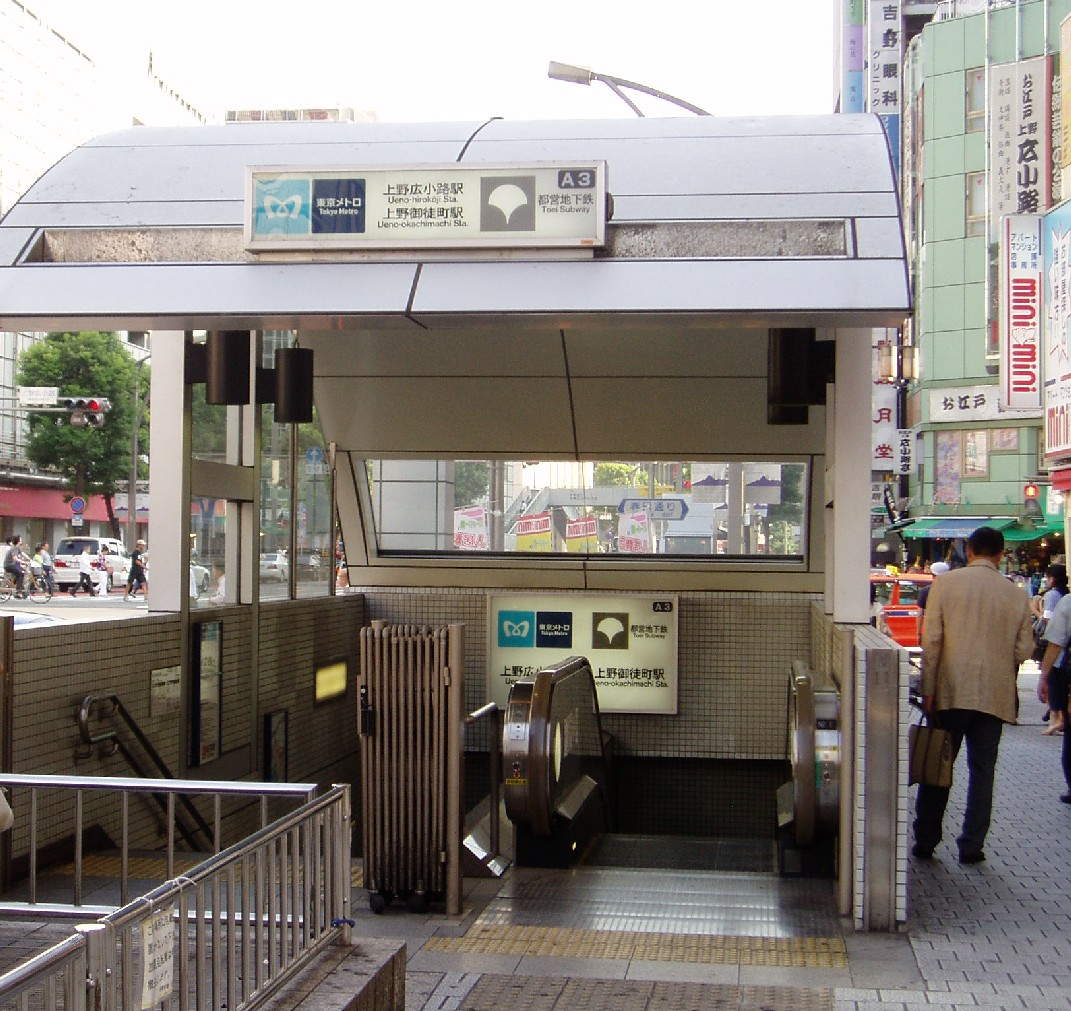 A3 exit, Ueno-Okachimachi Station & Ueno-Hirokoji Station, Tokyo, Japan